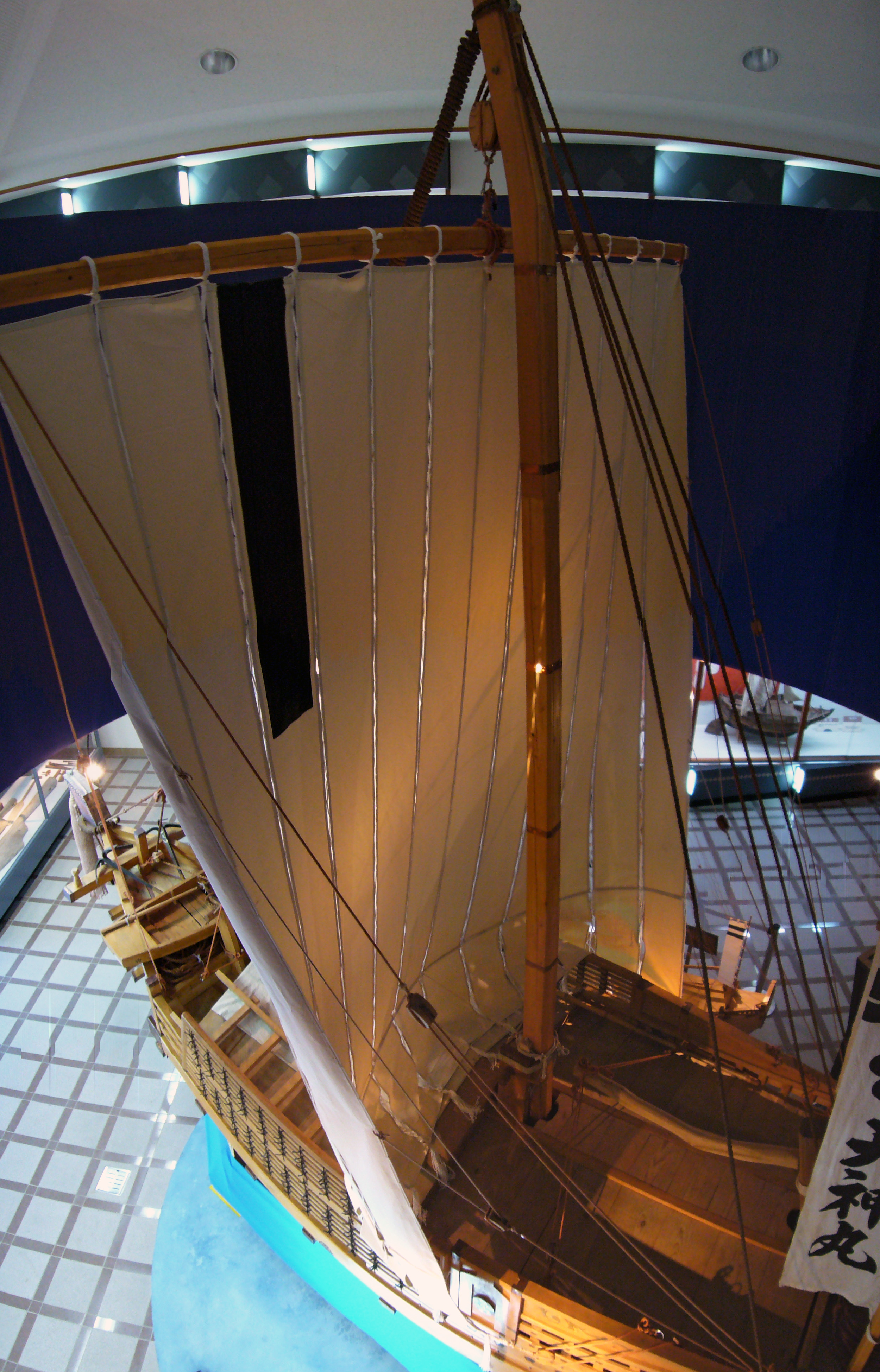 Kitamaekan in Toyooka, Hyogo prefecture, Japan